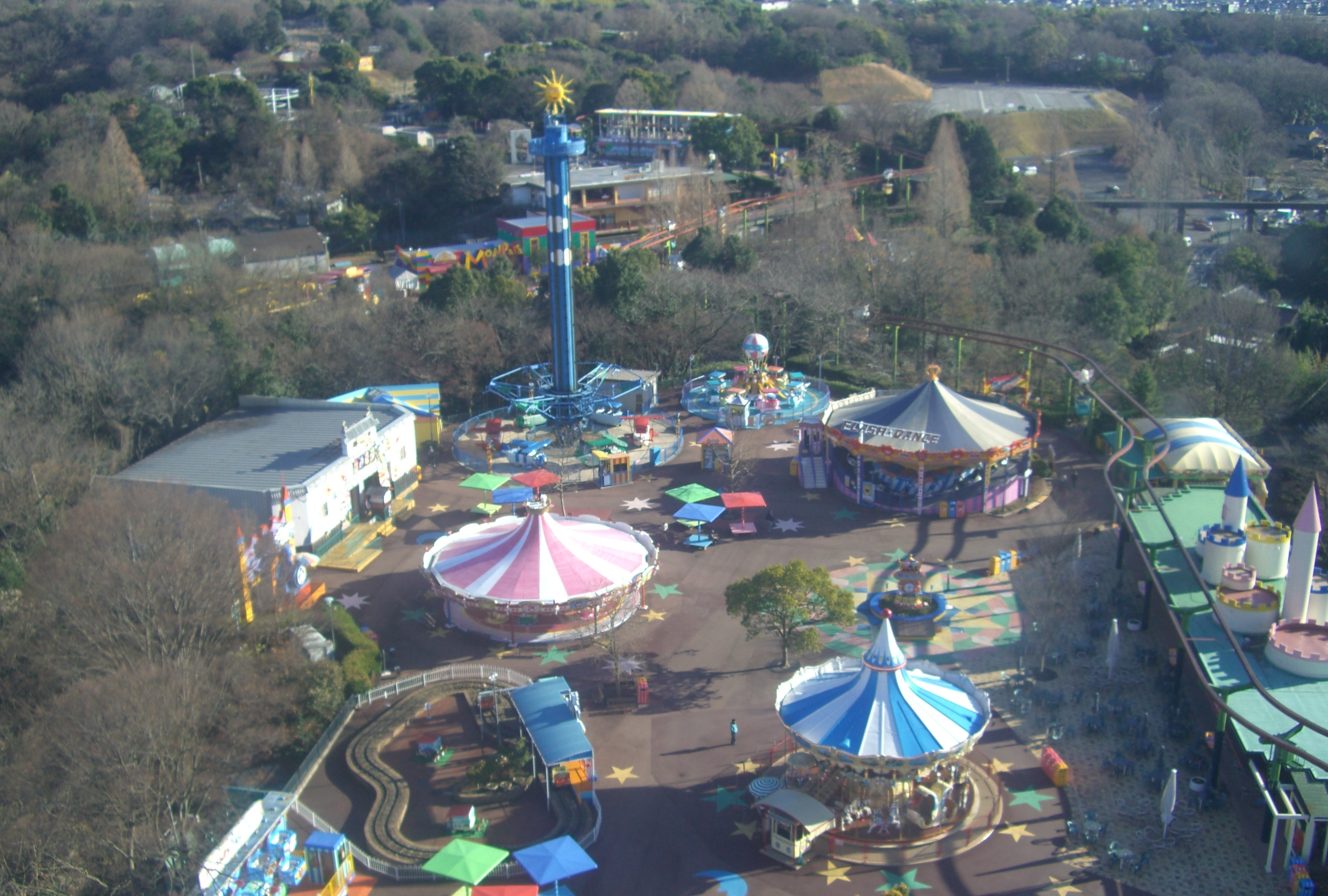 Birds eye view of Nihon Monkey Park.